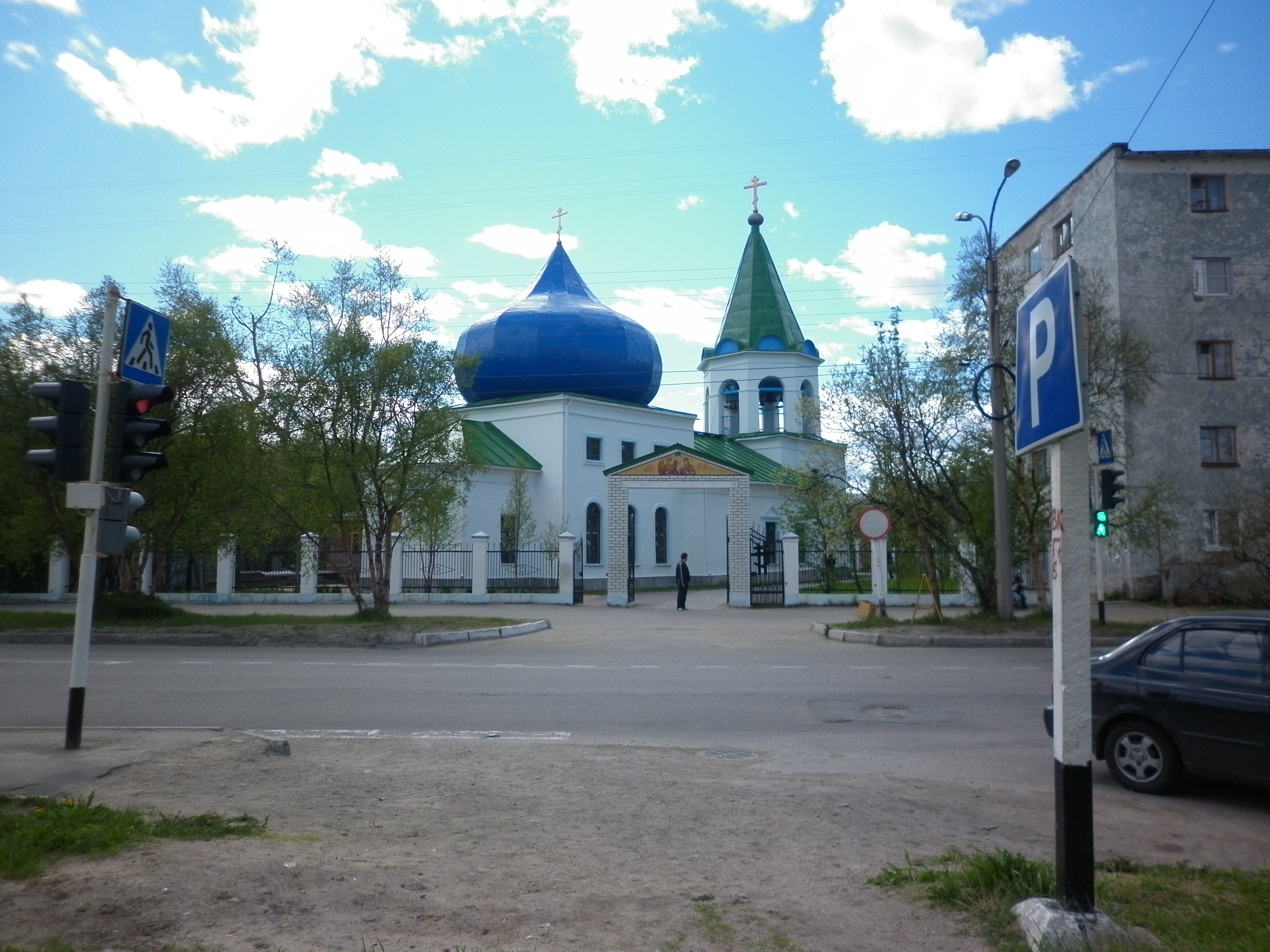 1804 год.